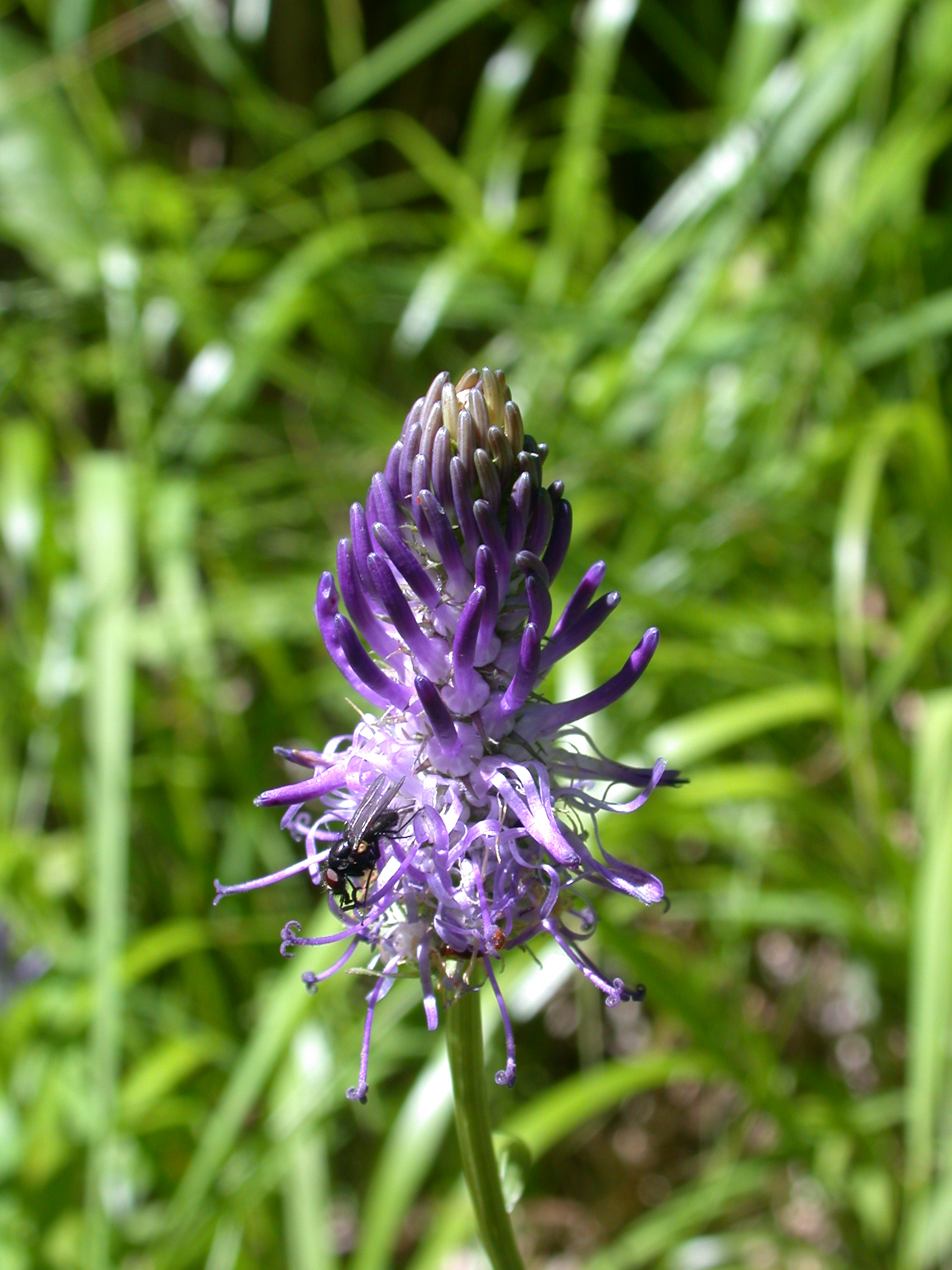 Phyteuma betonicifolium (Campanulaceae); Hinteres Lauterbrunnental, Canton of Bern, Switzerland